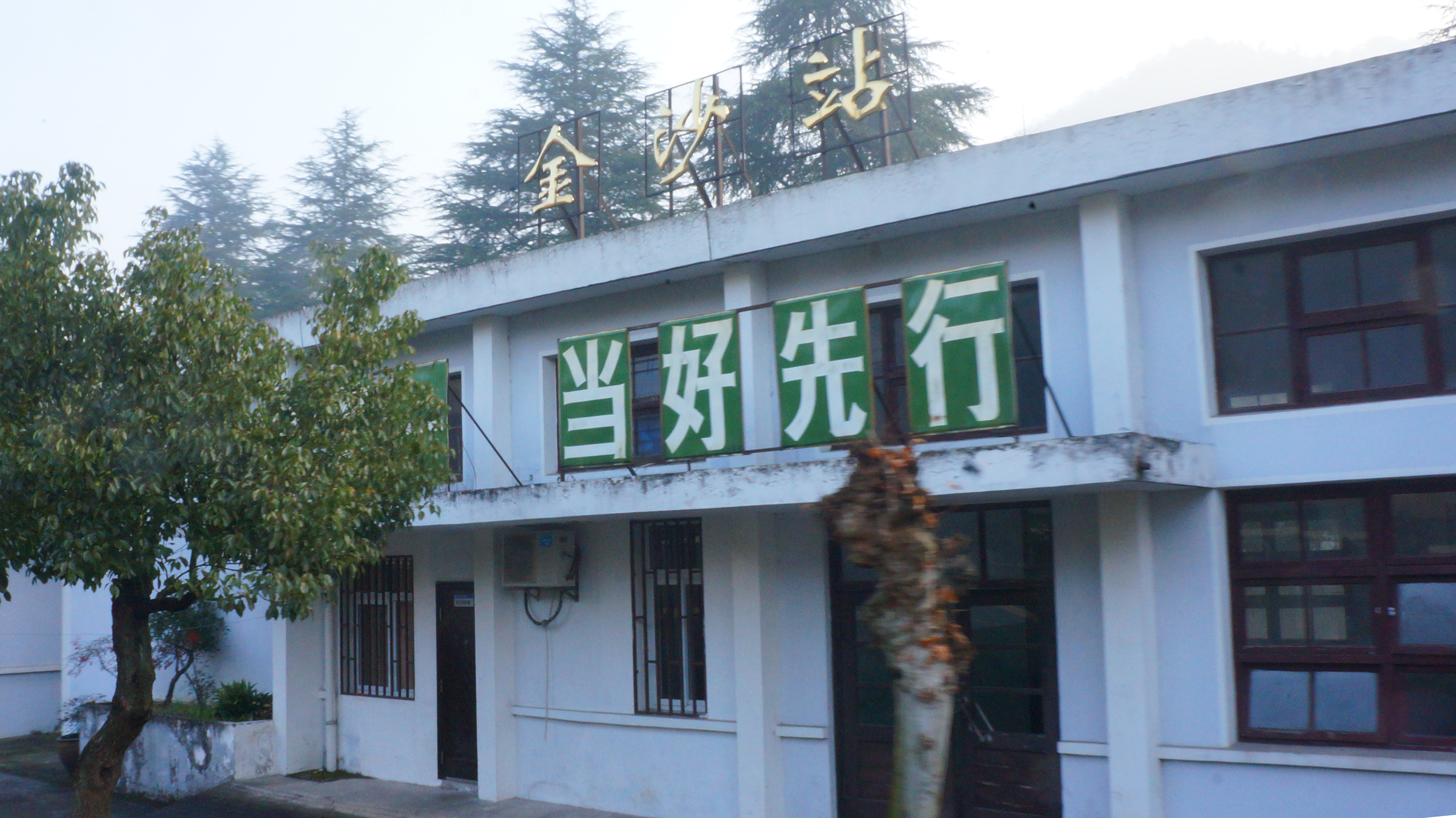 201601 Jinsha Railway Station